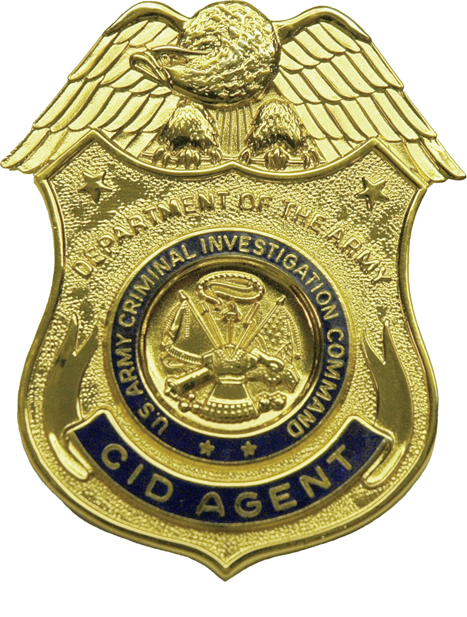 CID Special Agent badge